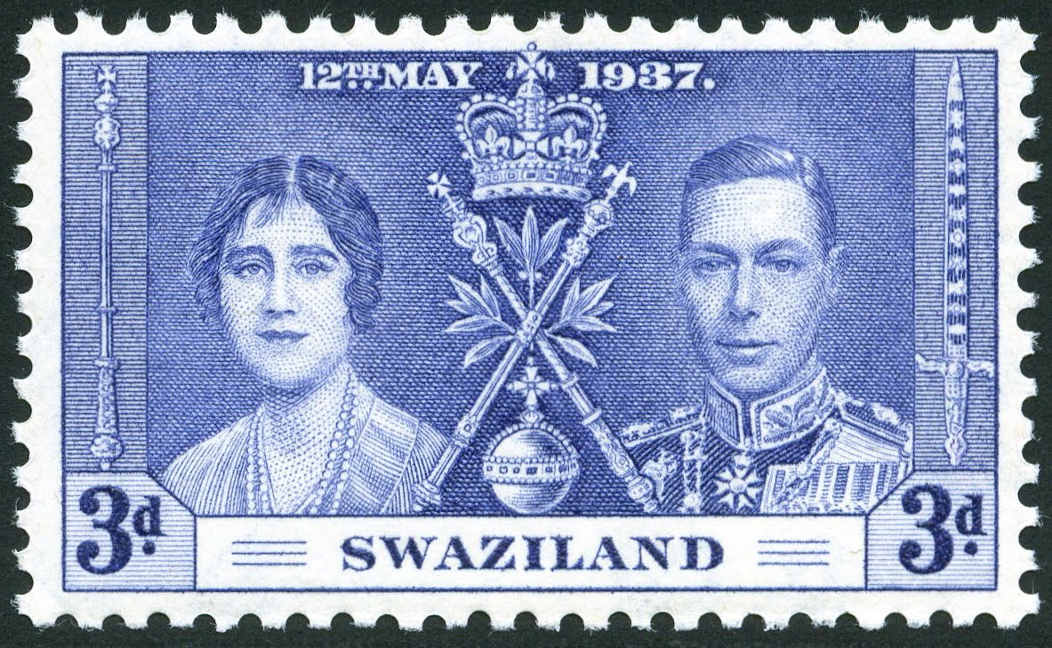 1937 3d stamp of Swaziland.